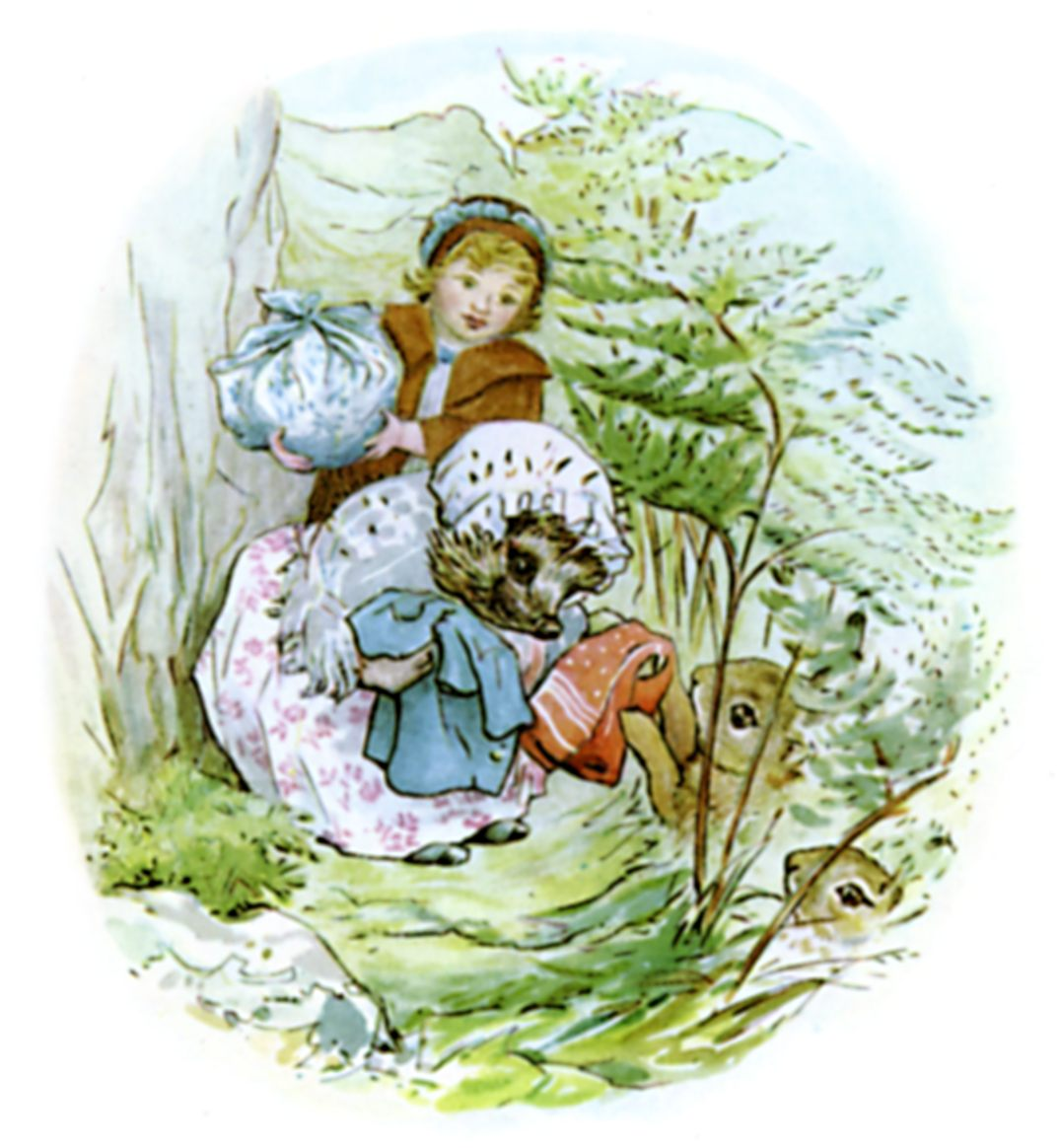 Mrs. Tiggy-Winkle and Lucie, from The Tale of Mrs. Tiggy-Winkle